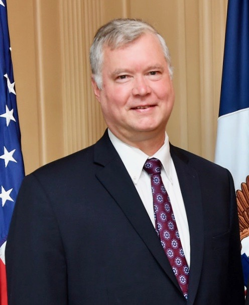 U.S. Secretary of State Michael R. Pompeo poses for a photo with Special Representative for North Korea delegate Stephen Biegun before his swearing-in ceremony at the U.S. Department of State in Washington, D.C. on August 23, 2018. [State Department photo/ Public Domain]